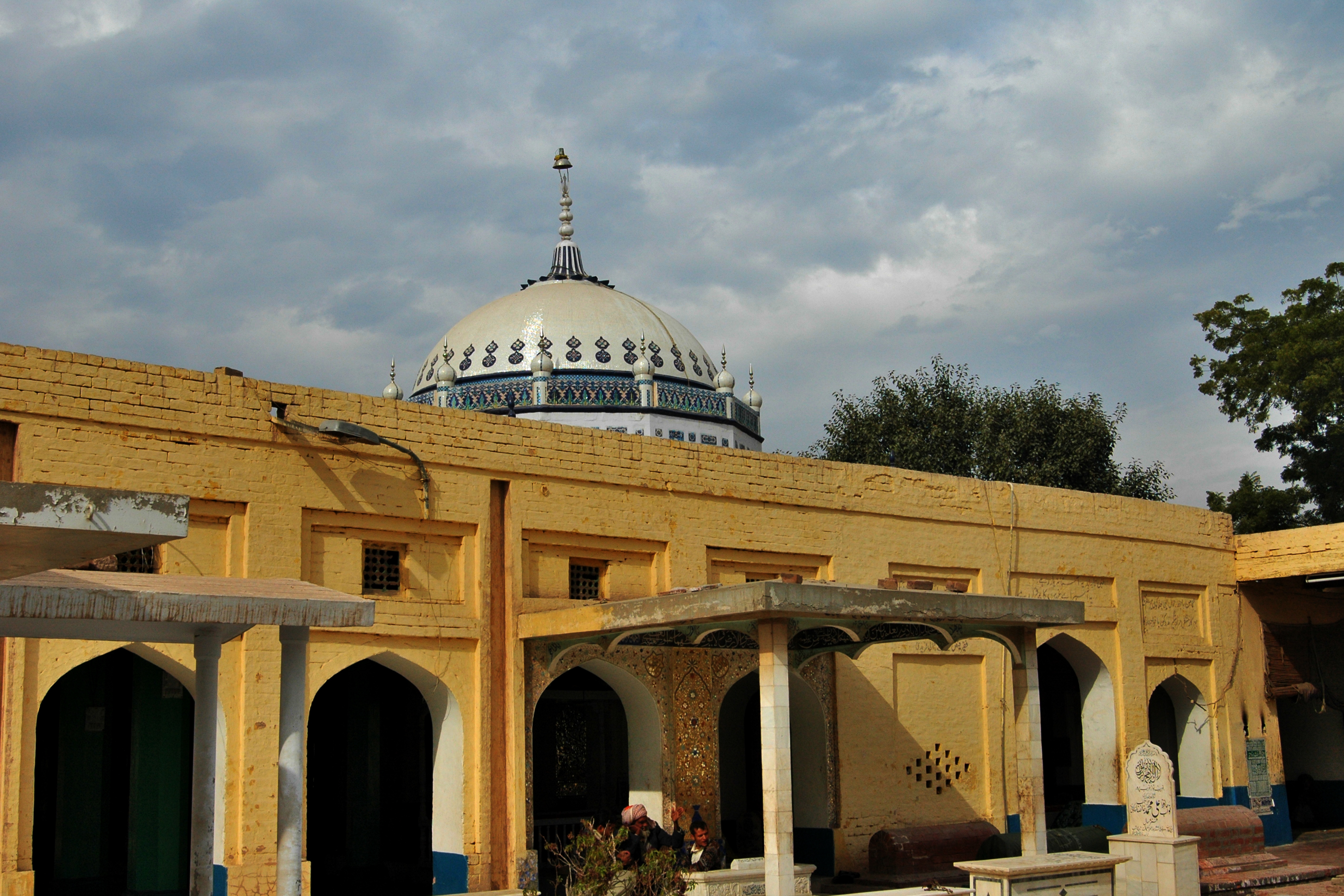 Shrine of Hazrat Hafiz Muhammad Jamal This is a photo of a monument in Pakistan identified as the PB-P-165